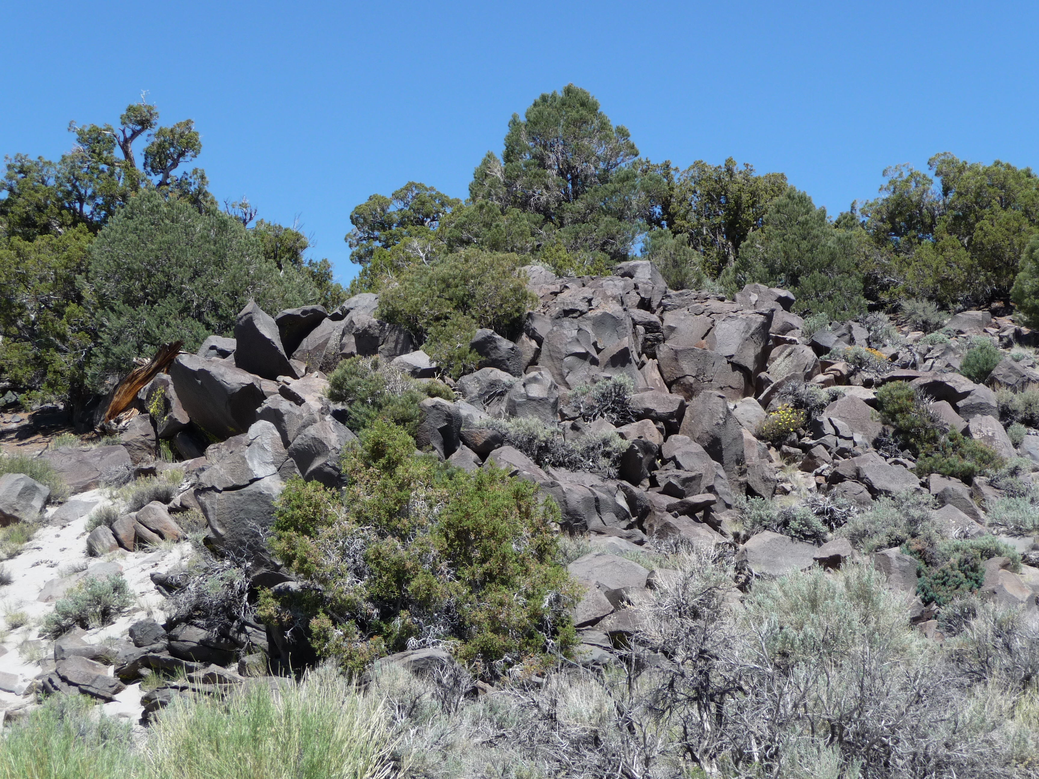 Basaltic outcrop along Dobie Meadows Road in the Adobe Hills, Mono County, eastern California.